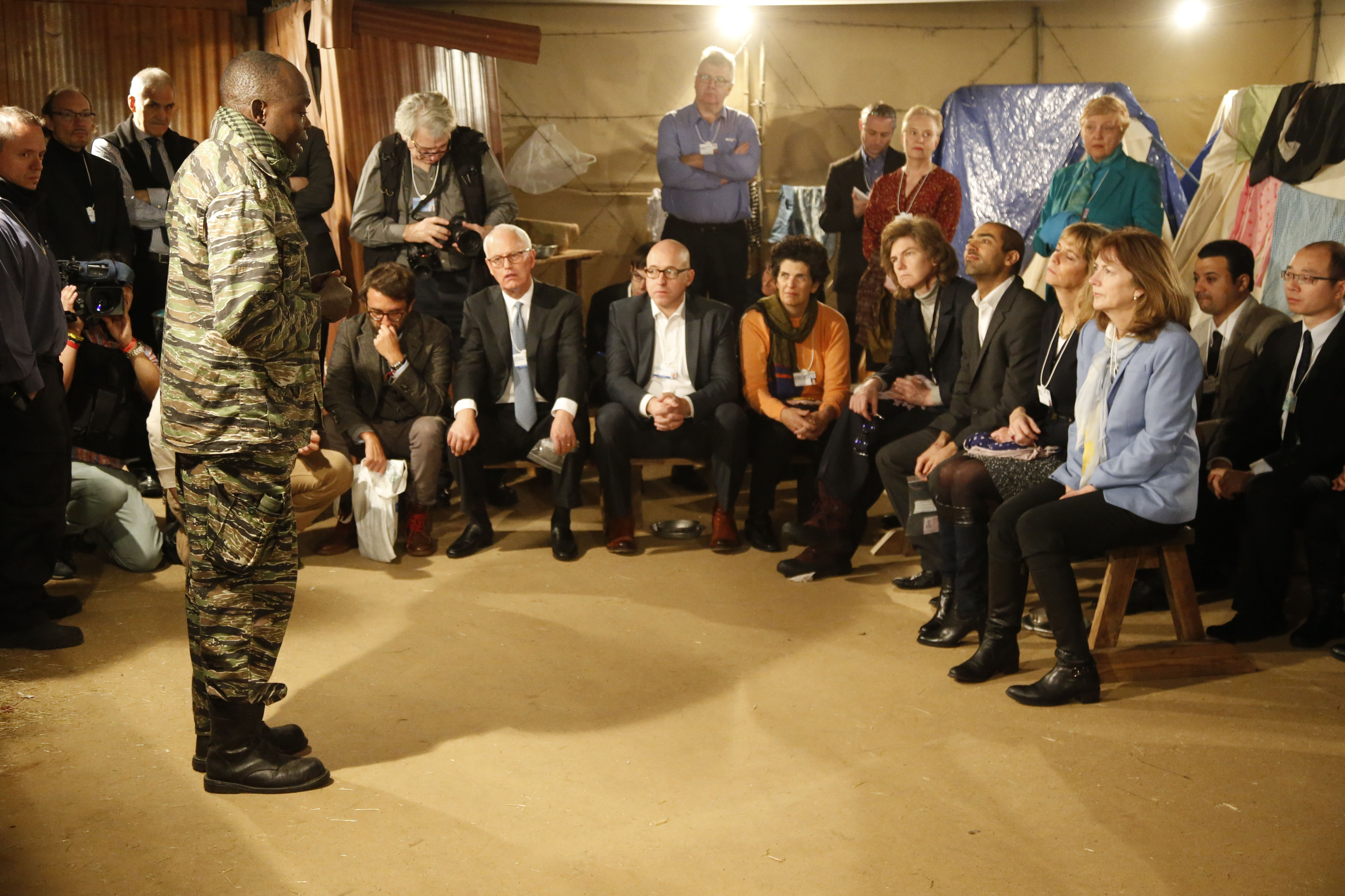 'A Day in the Life of a Refugee', run by Crossroads Foundation, invites participants to take a few steps in the shoes of refugees, through a simulated environment which re-creates some of the struggles and choices they face to survive, each day. 2016-01-20 10:30 session © David McIntyre/Crossroads Foundation Ltd.